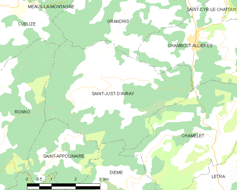 Map of French municipality